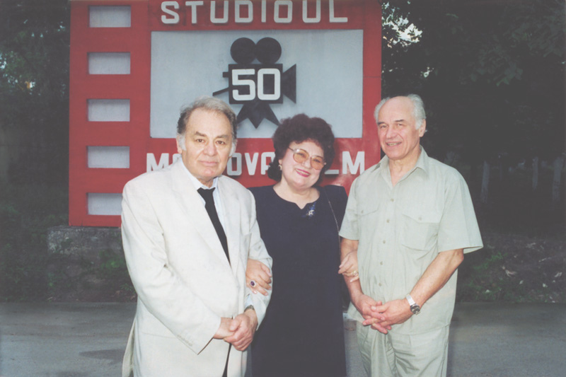 Coryphaeuses of the Moldavian cinema: режисёр Emil Loteanu, opera singer Maria Biesu and composer Eugen Doga (2002).